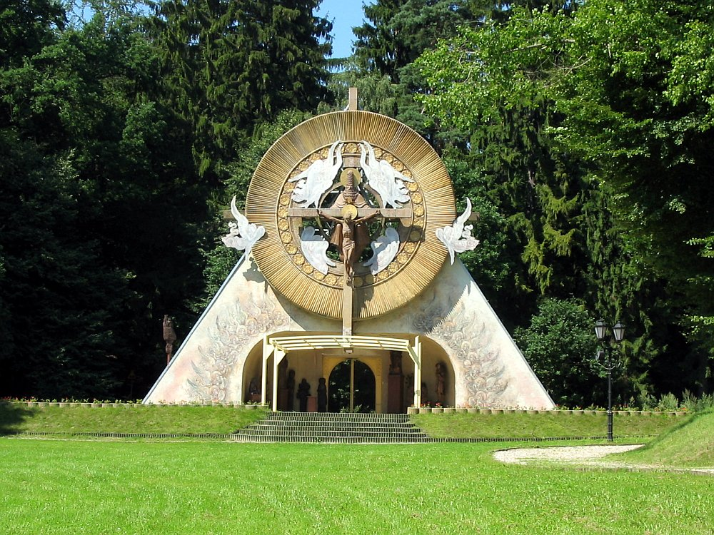 The altar built in 1999 for the occasion of John Paul II's pilgrimage to Poland Picture taken in Matemblewo (Gdańsk), Poland, 2004.